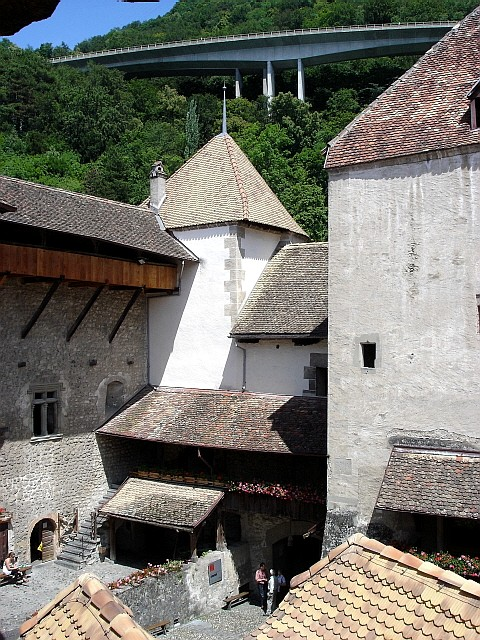 Chillon